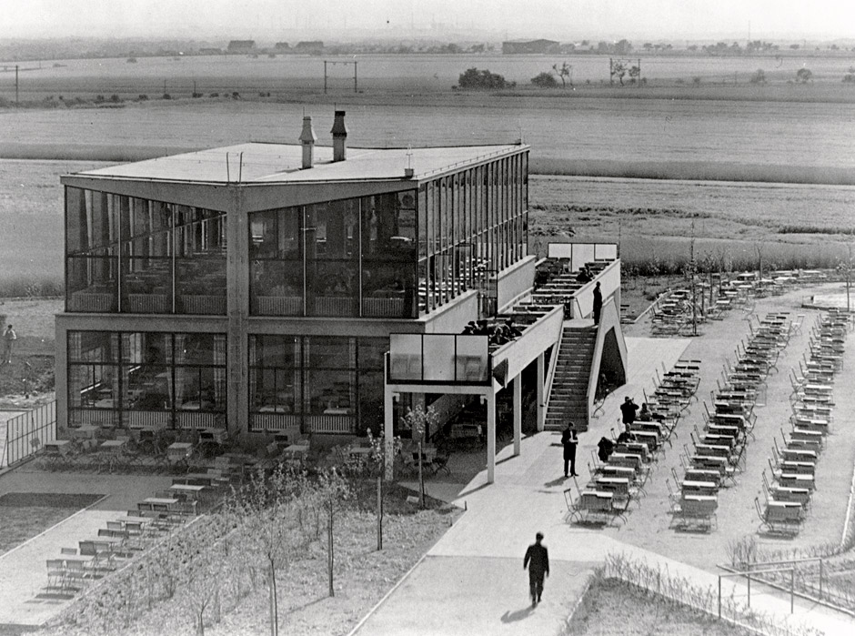 The new restaurant at the Halle/Leipzig Airport. Built 1930—1931 by Hans Wittwer (1894—1952)